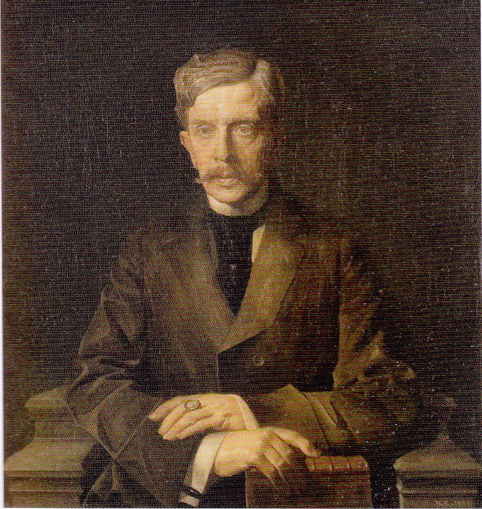 Portrait of Dutch author P.C, Boutens (1870-1943) by painter W.A. van Konijnenburg. Painted in 1914. Location of the painting in 2016: Nederlands Letterkundig Museum, The Hague (the Netherlands)